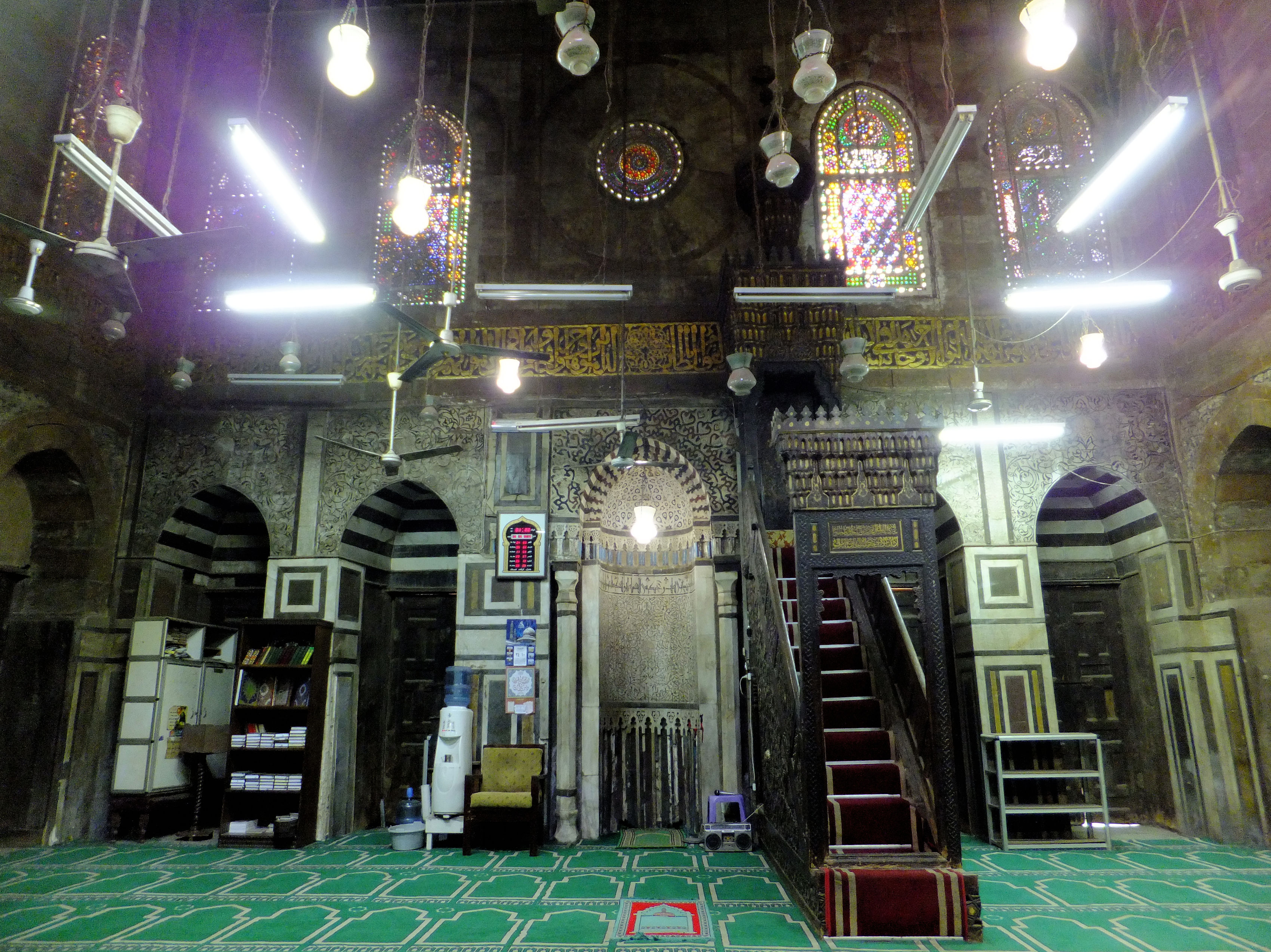 Mosque of Qijmas al-Ishaqi, the qibla wall, with mihrab and minbar.